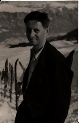 Heinz Hopf, ca. 1935-1937